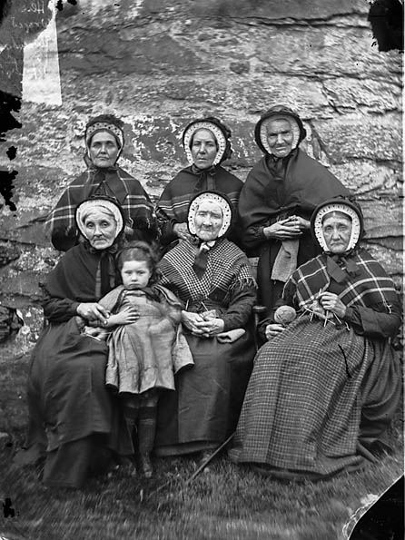 1 negative : glass, wet collodion, b&w ; 11 x 8 cm.